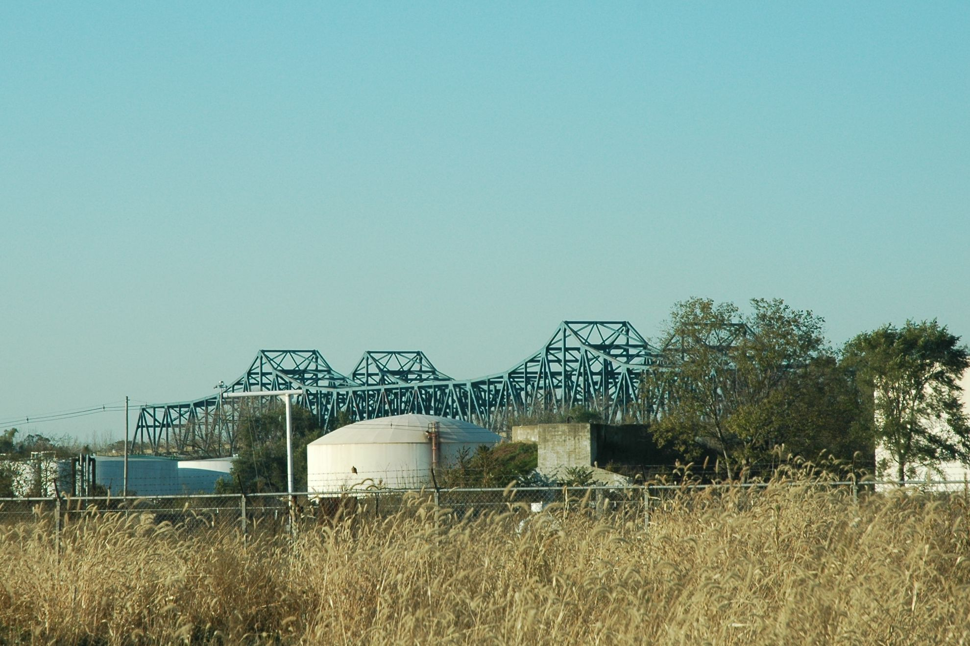 Shade-Lohmann Bridge carrying I-474 over the Illinois River in Creve Coeur, Illinois. From the SE. (In 2012, U.S. Route 24 was added to this bridge.)